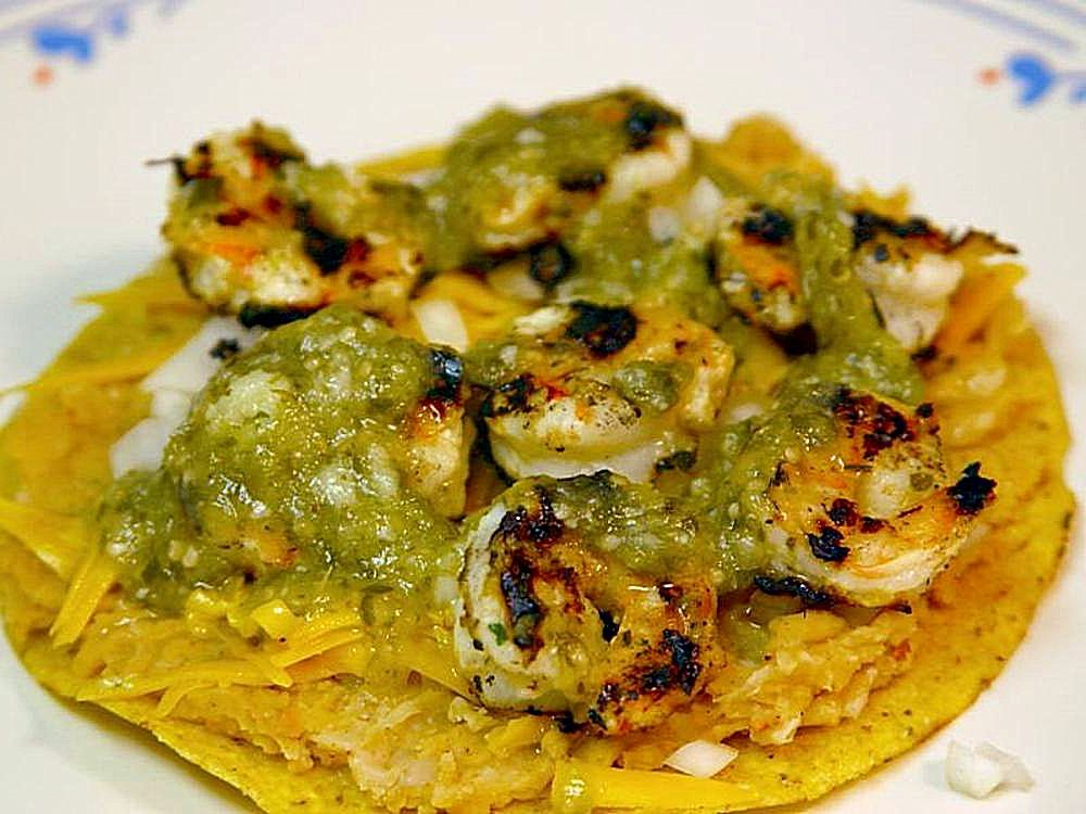 Image title: Tostadas shrimp cooking food dinner salsa Image from Public domain images website